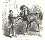 Image from The Complete Horse Tamer by John Rareywritten in 1860